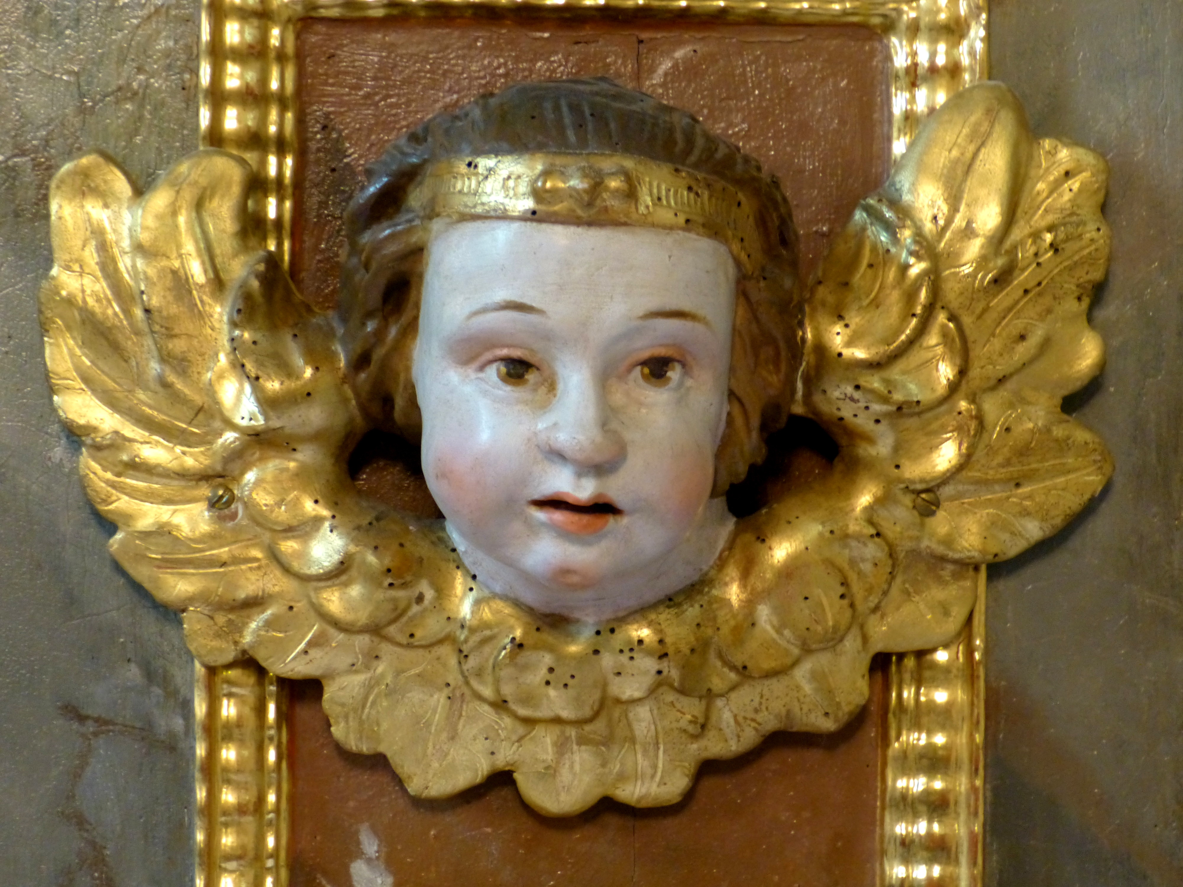 Maria Scharten church ( Upper Austria ). Altar of the Crucifixion ( 1667 ) - Cherub.